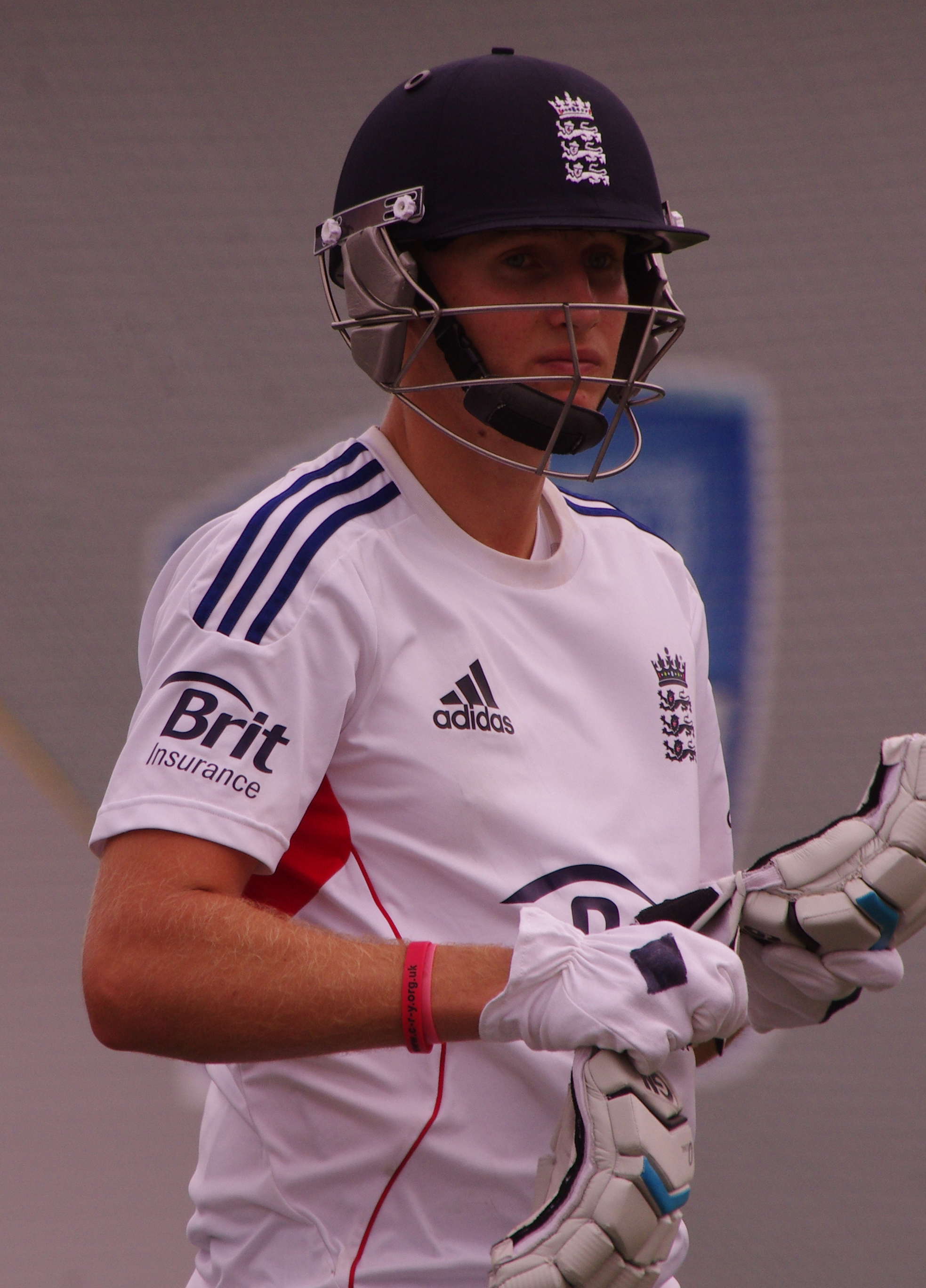 JOE ROOT